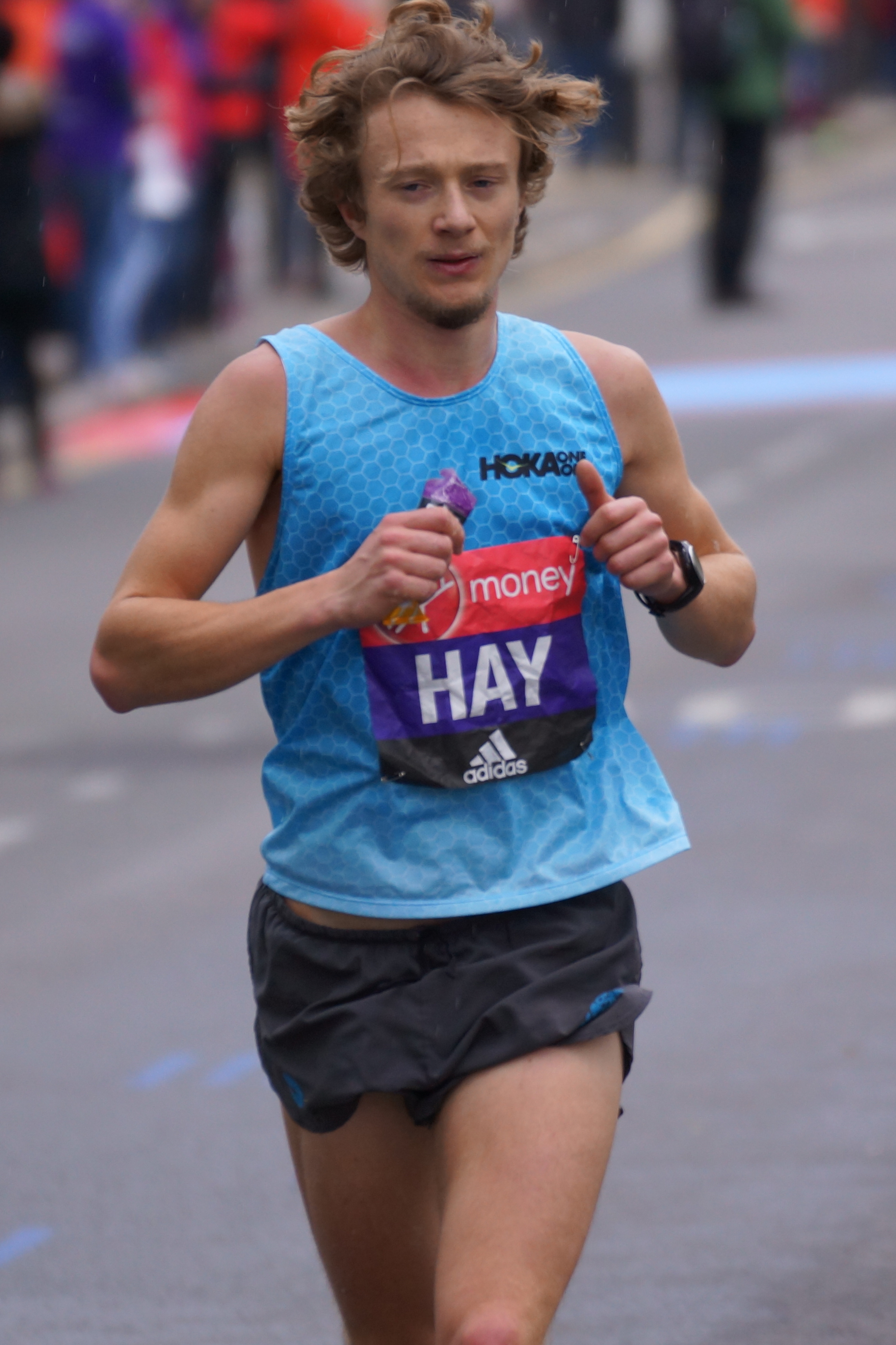 Jonathan Hay. Photograph taken by Julian Mason on 24th April 2016 during the London Marathon. Location Westferry Road on the Isle of Dogs close to Arnhem Place and just before Millwall Outer Dock.